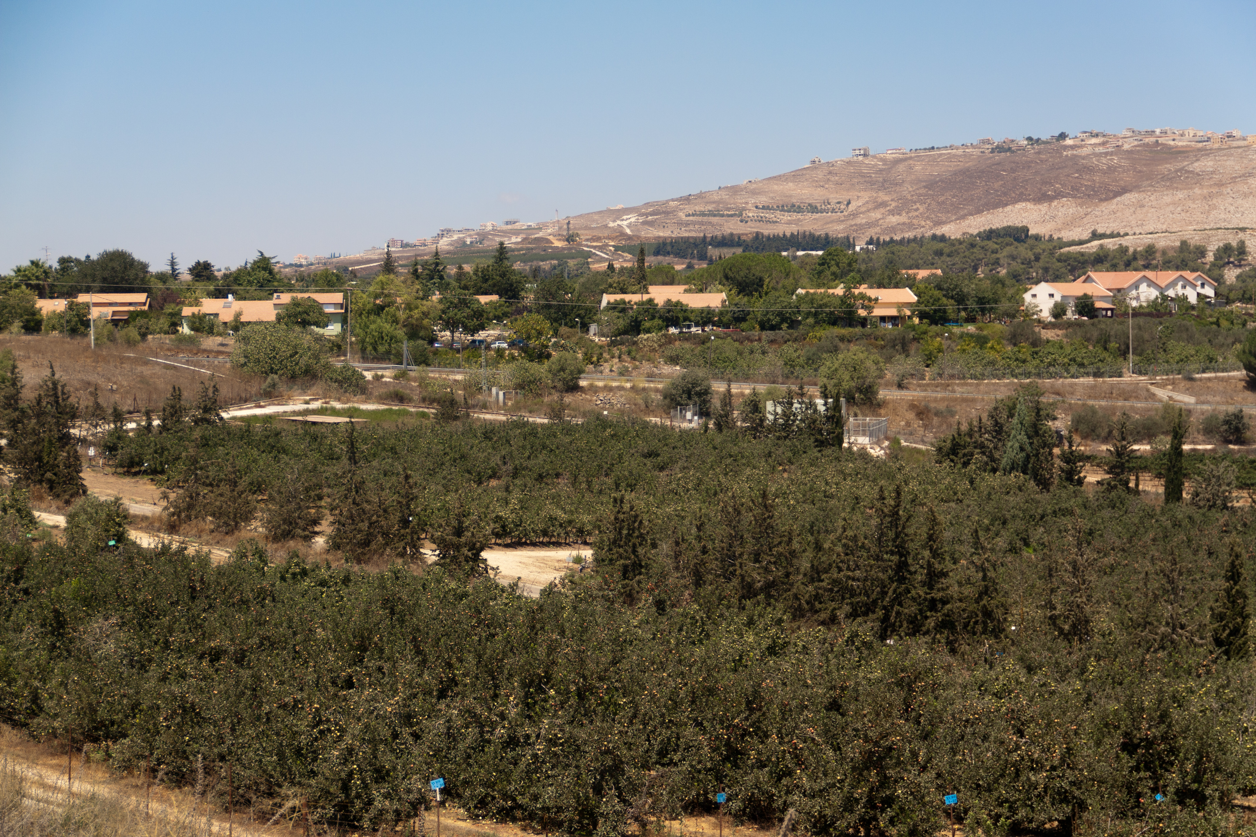 Houses and orchards of Yir'on